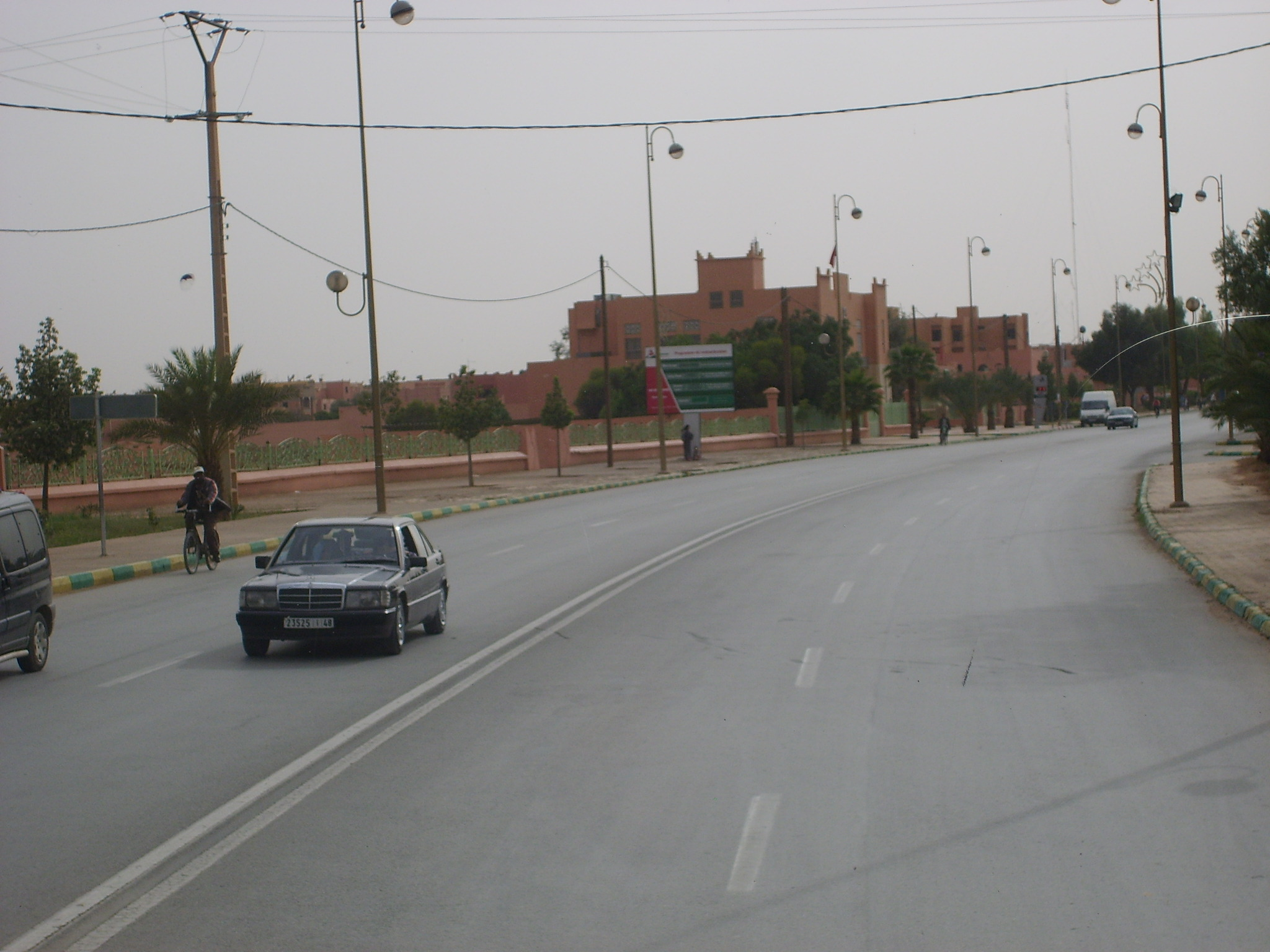 Main road in Er Rachidia, Morocco.